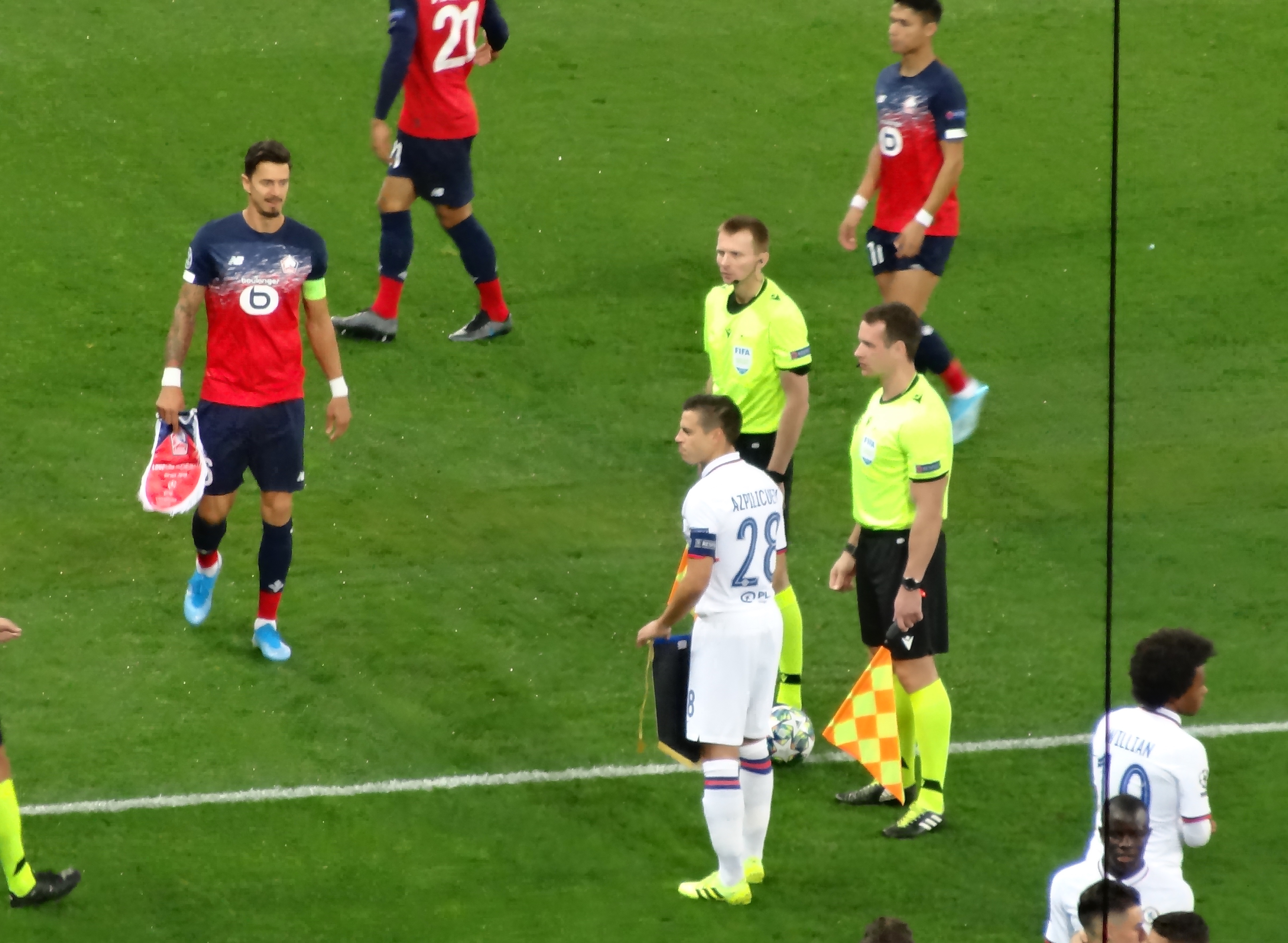 Lille LOSC vs Chelsea (2019)